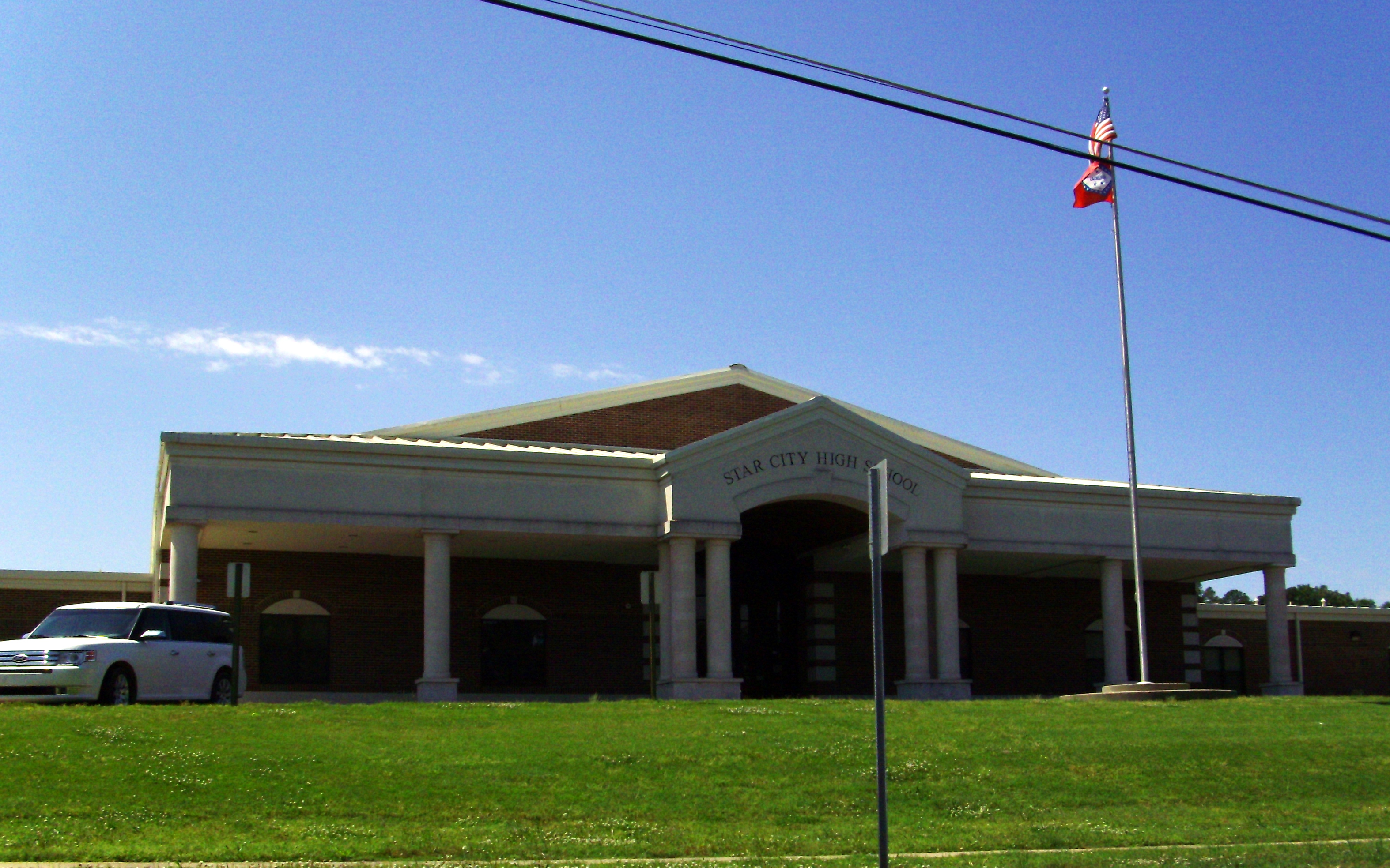 Viewed from Highway 11 in Star City, AR